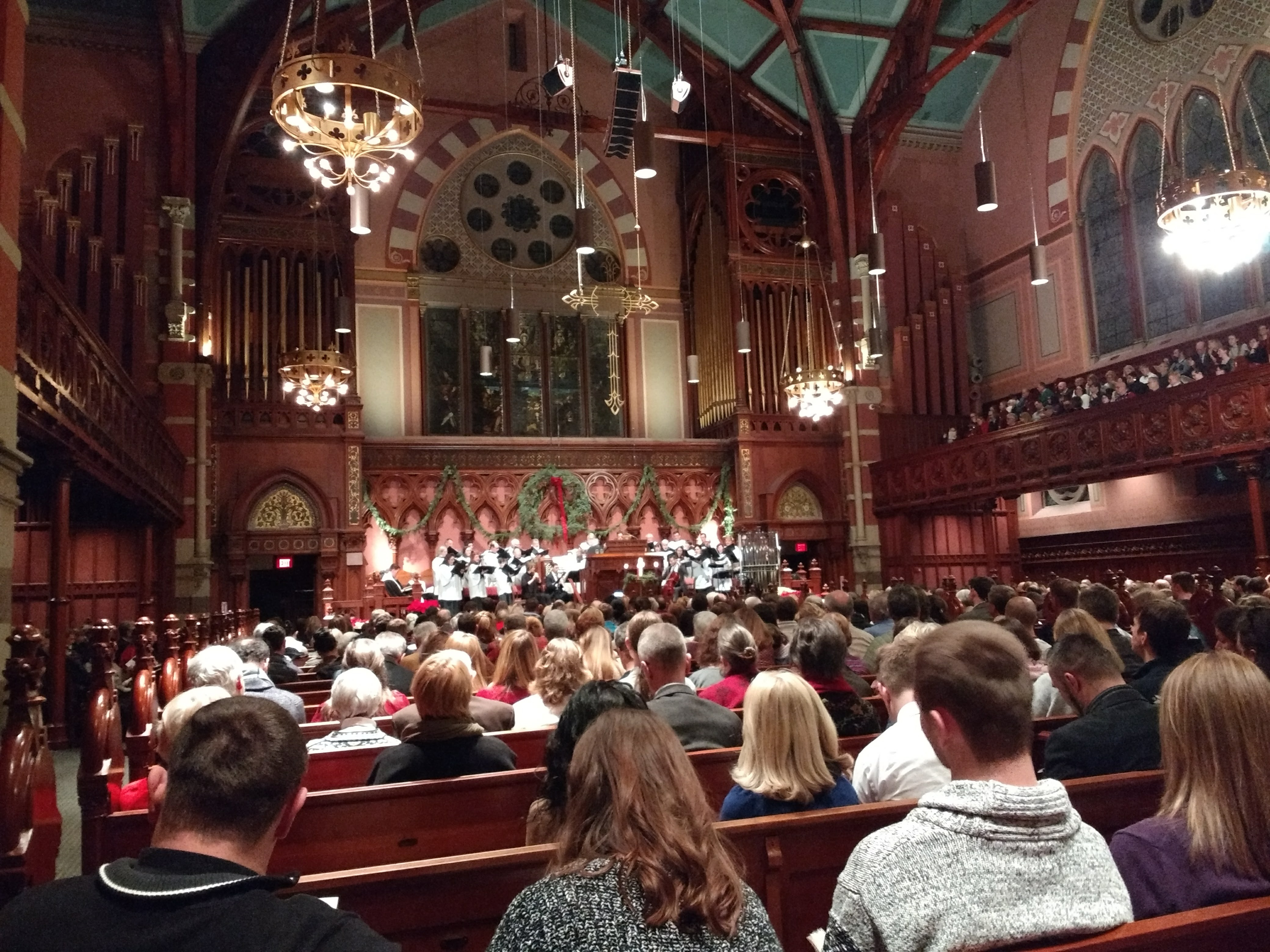 Christmas Eve services at the Old South Church in Boston, Massachusetts in 2017.